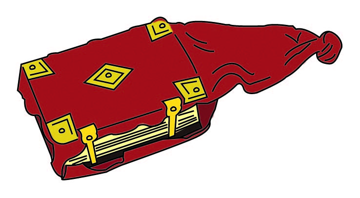 Girdle binding. Drawing.